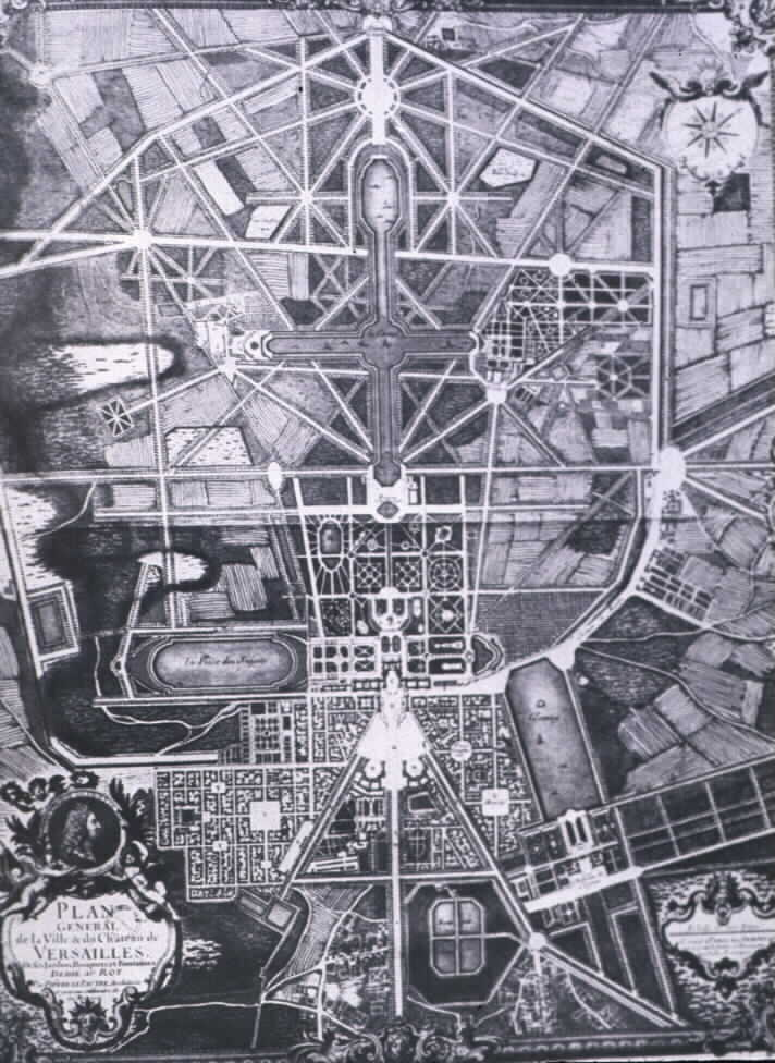 Versailles, Garden Plan.